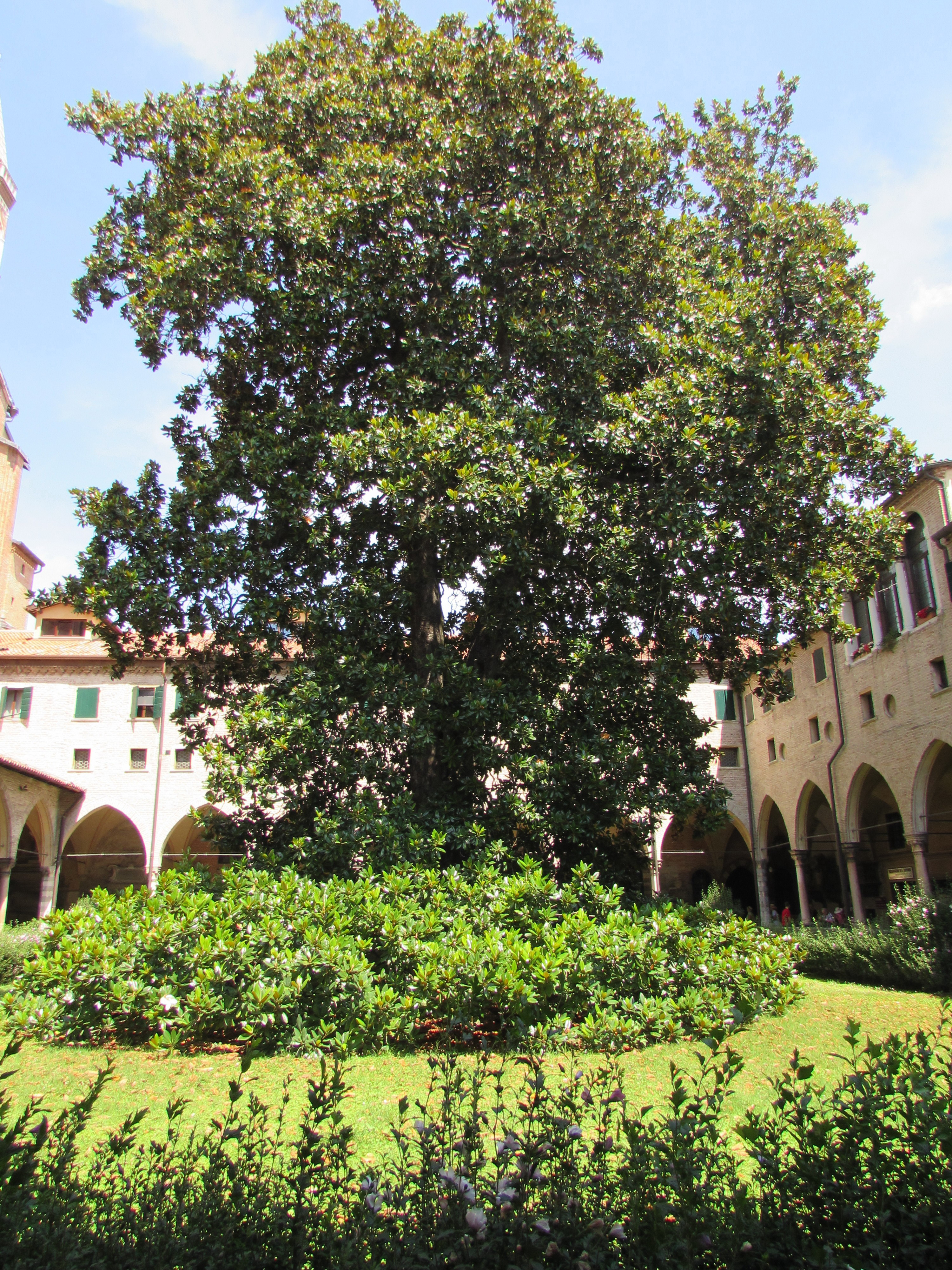 Basilica of Saint Anthony of Padua